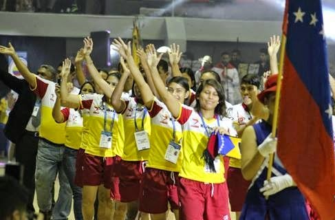 Venezuela women's national futsal-AMF team